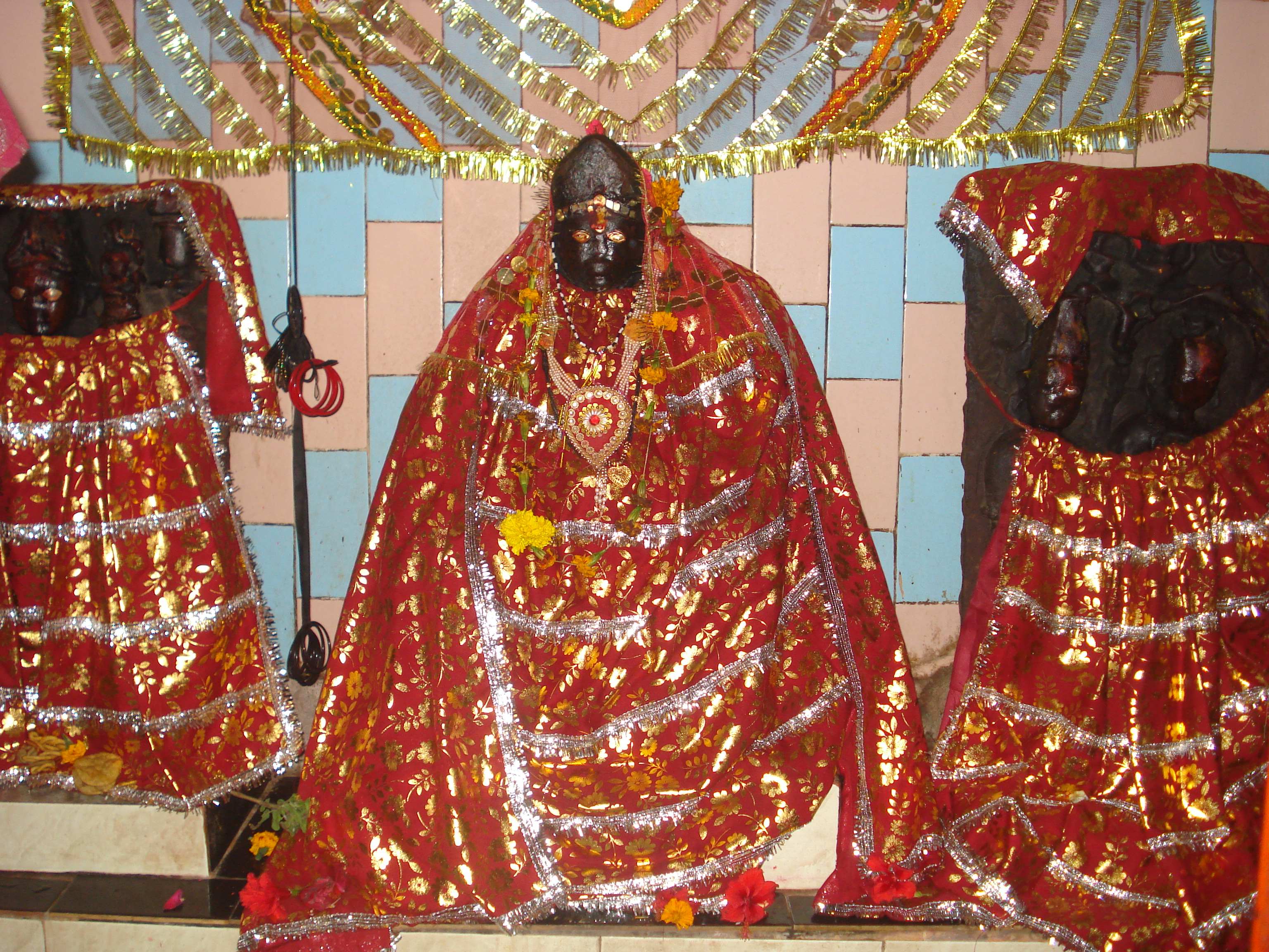 This is Durga Statue. There are three statues in this small temple beside main Sanctum.